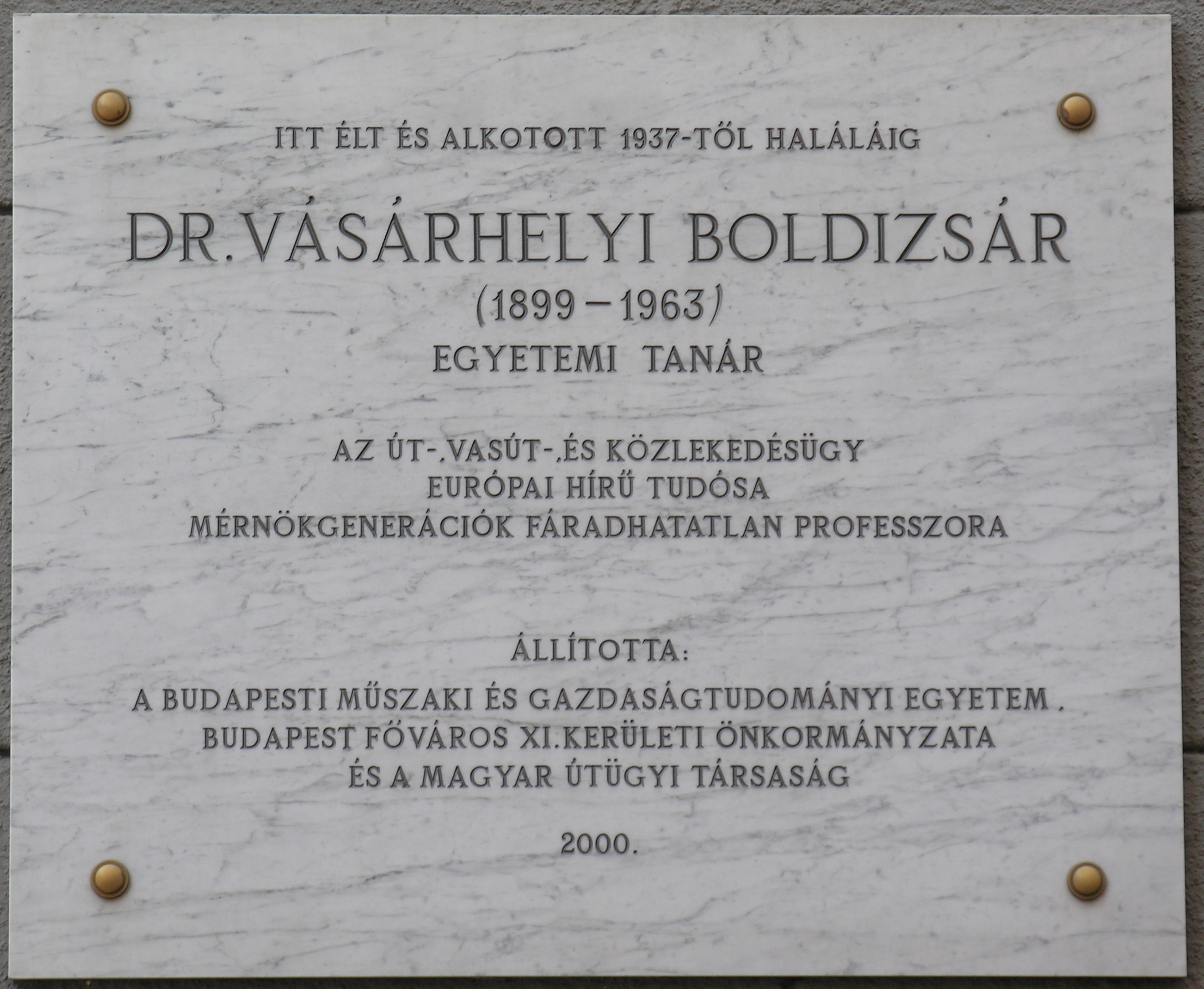 Commemorative plaque of Boldizsár Vásárhelyi in Budapest District XI, Budafoki Street No 20 (Lágymányosi Street side)